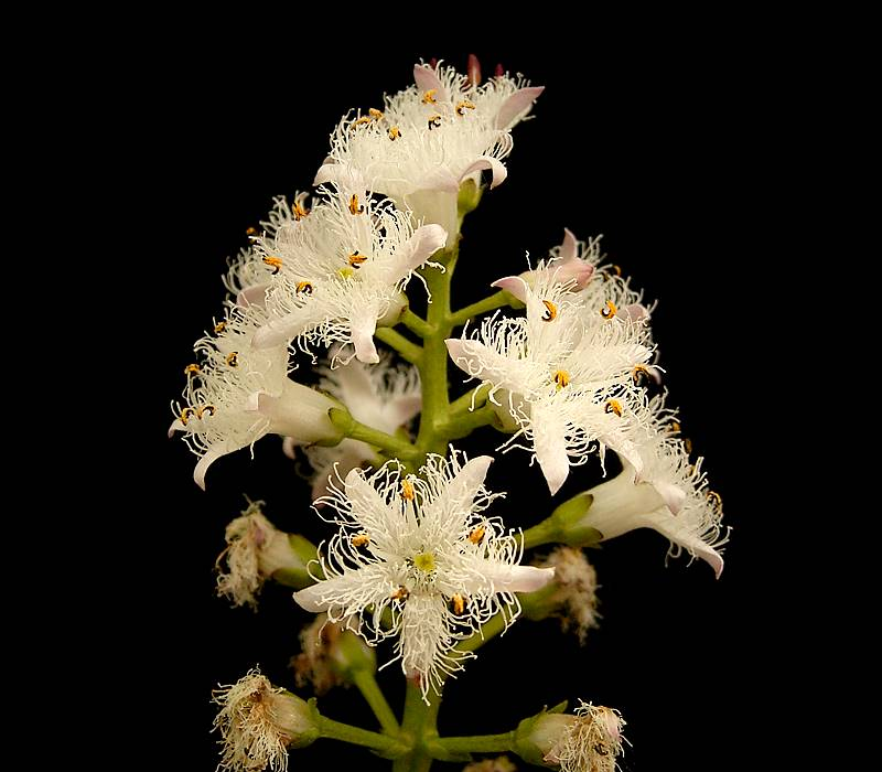 Menyanthes trifoliata